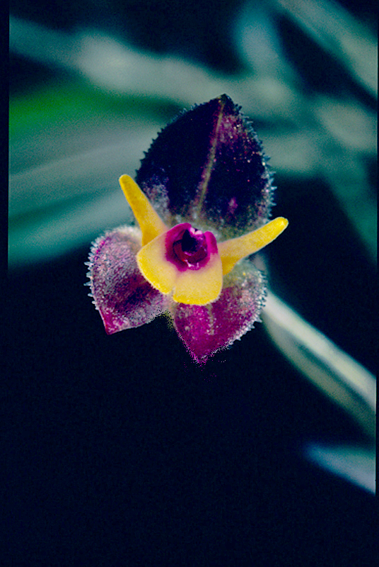 Lepanthopsis comet-halleyi